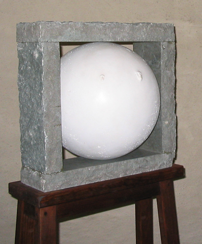 The Maldek sculpture in Rogslösa church